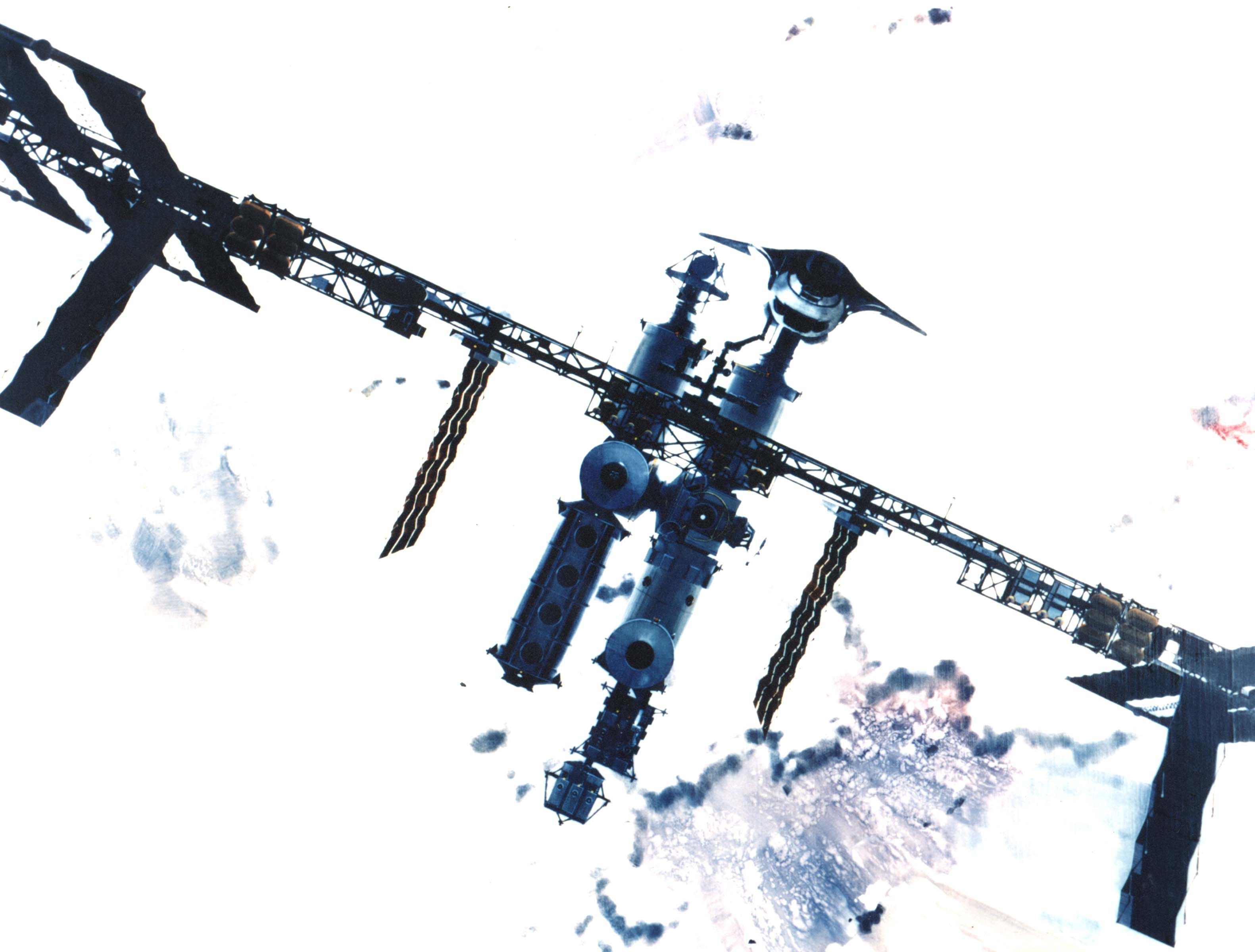 A concept drawing of Space Station Freedom. Freedom was to be a permanently crewed orbiting base in orbit to be completedin the mid 1990's. It was to have a crew of 4. Freedom was an attempt at international cooperation that attempted to incorporate the technological and economic assistance, of the United States, Canada, Japan, and nine European nations. The image shows four pressurized modules (three laboratories and a habitat module) and six large solar arrays which were expected togenerate 56,000 watts of electricity for both scientific experiments and the daily operation of the station. Space Station Freedom never came to fruition. Instead, in 1993, the original partners, as well as Russia, pooled their resources to create the International Space Station.